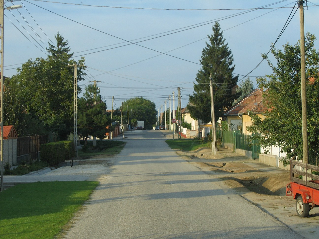 Újhartyán, Hungary, typical road